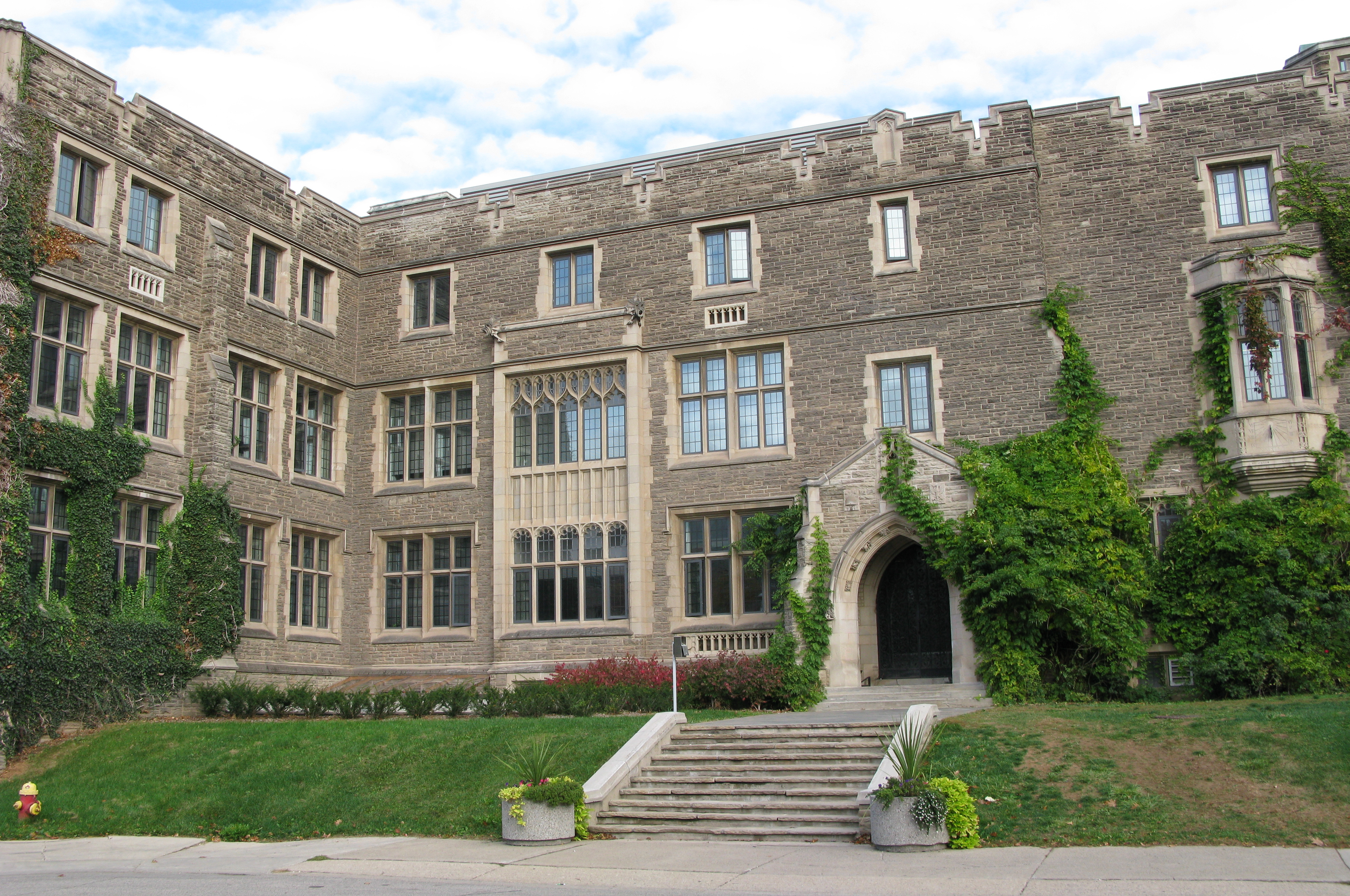 Hamilton Hall at McMaster University, home of the Department of Mathematics